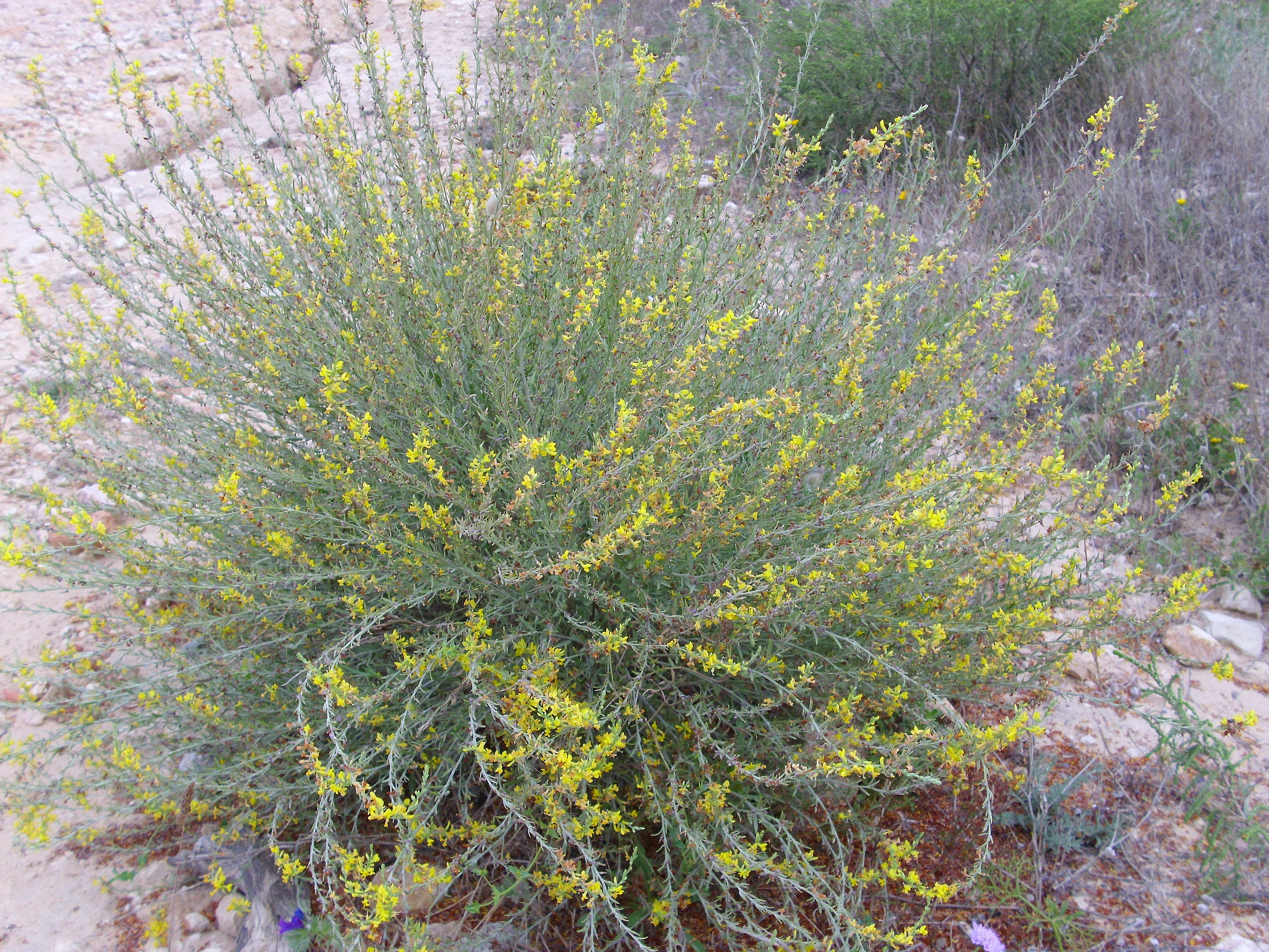 Anthyllis cytisoides Habitus, La Mata, Torrevieja, Alicante, Spain.